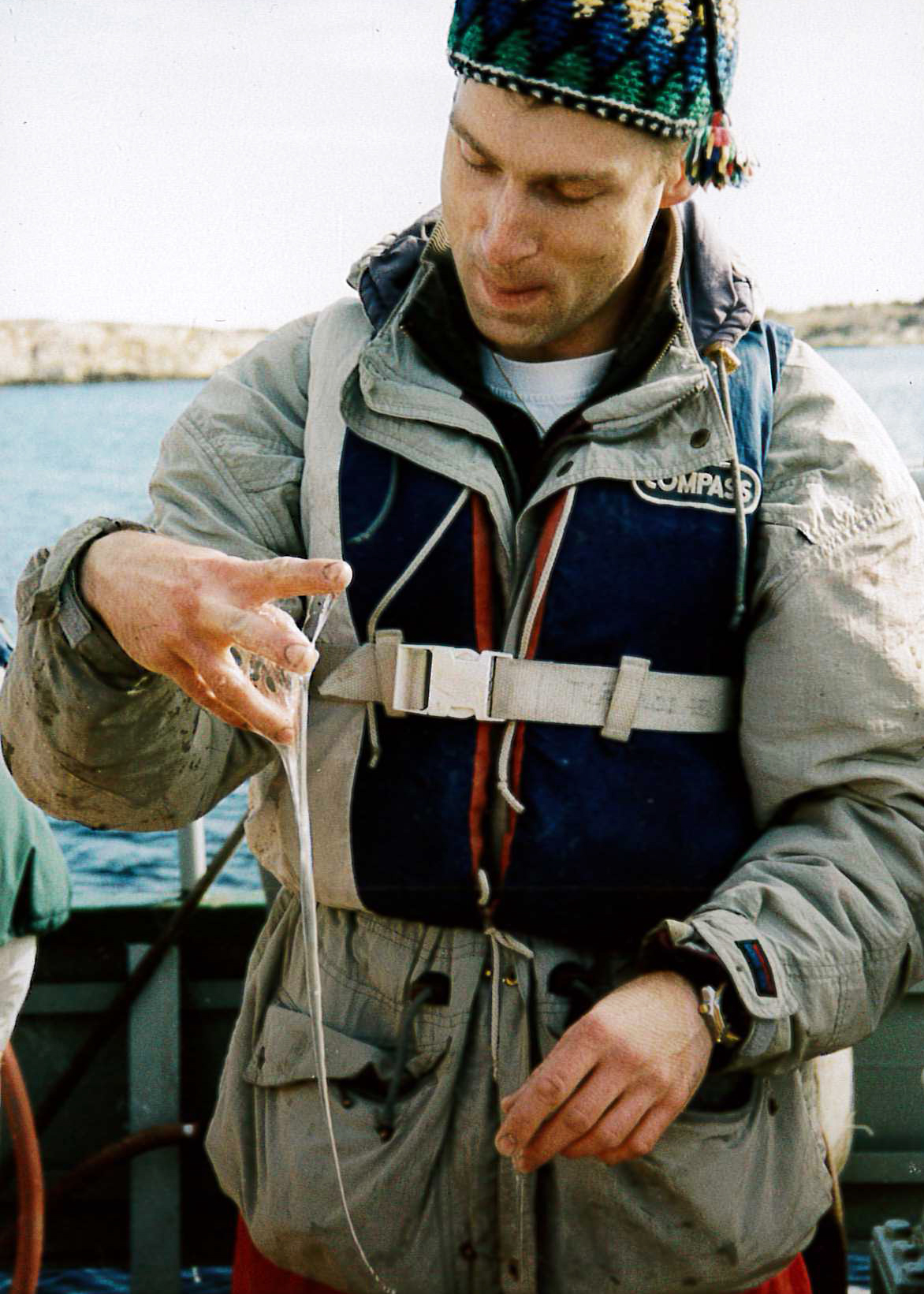 At Tjarno Marine laboratory, we explore closely the phyla of the sea.